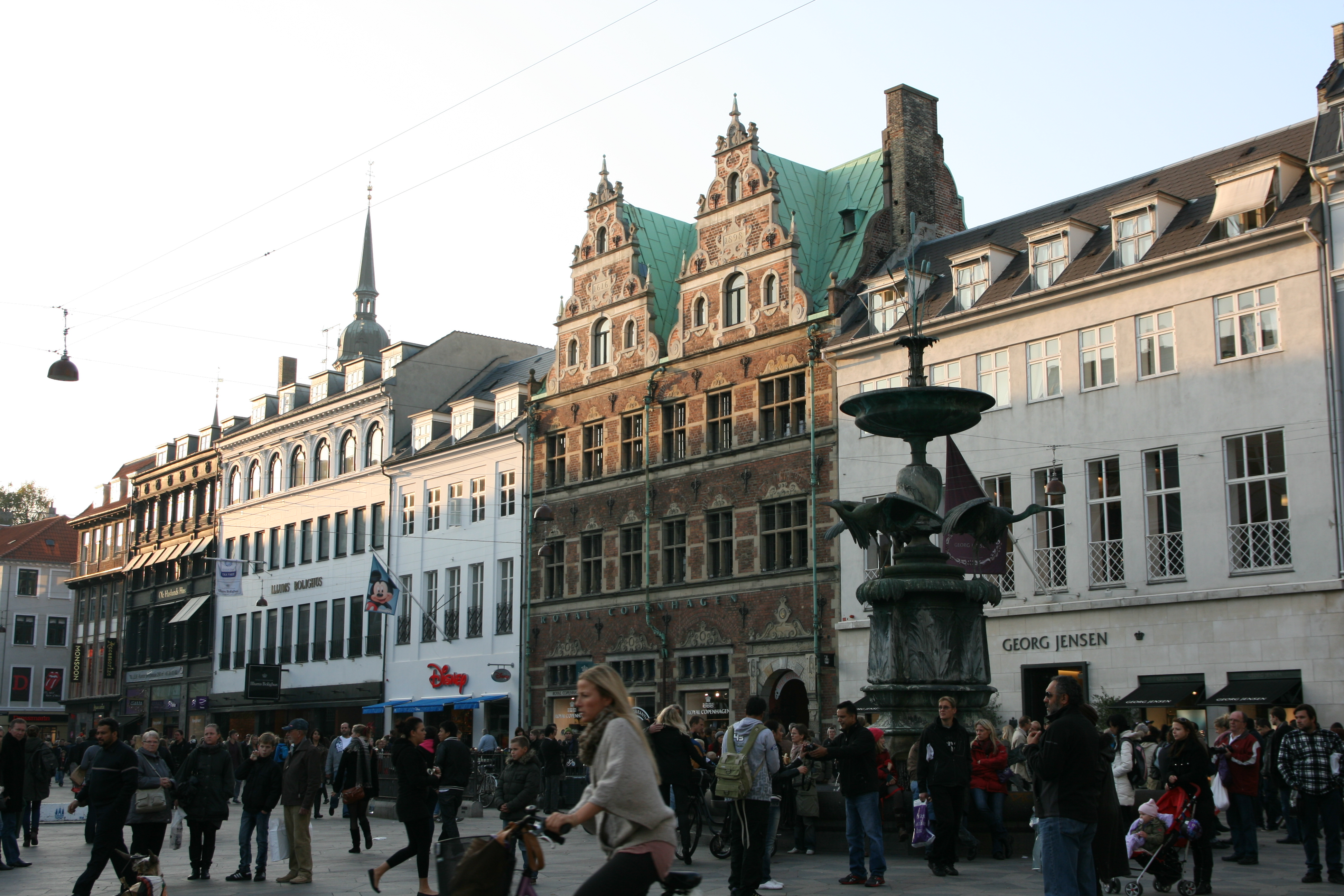 Amagertorv in Copenhagen with the Stork Fountain and the Royal Copenhagen flagship store